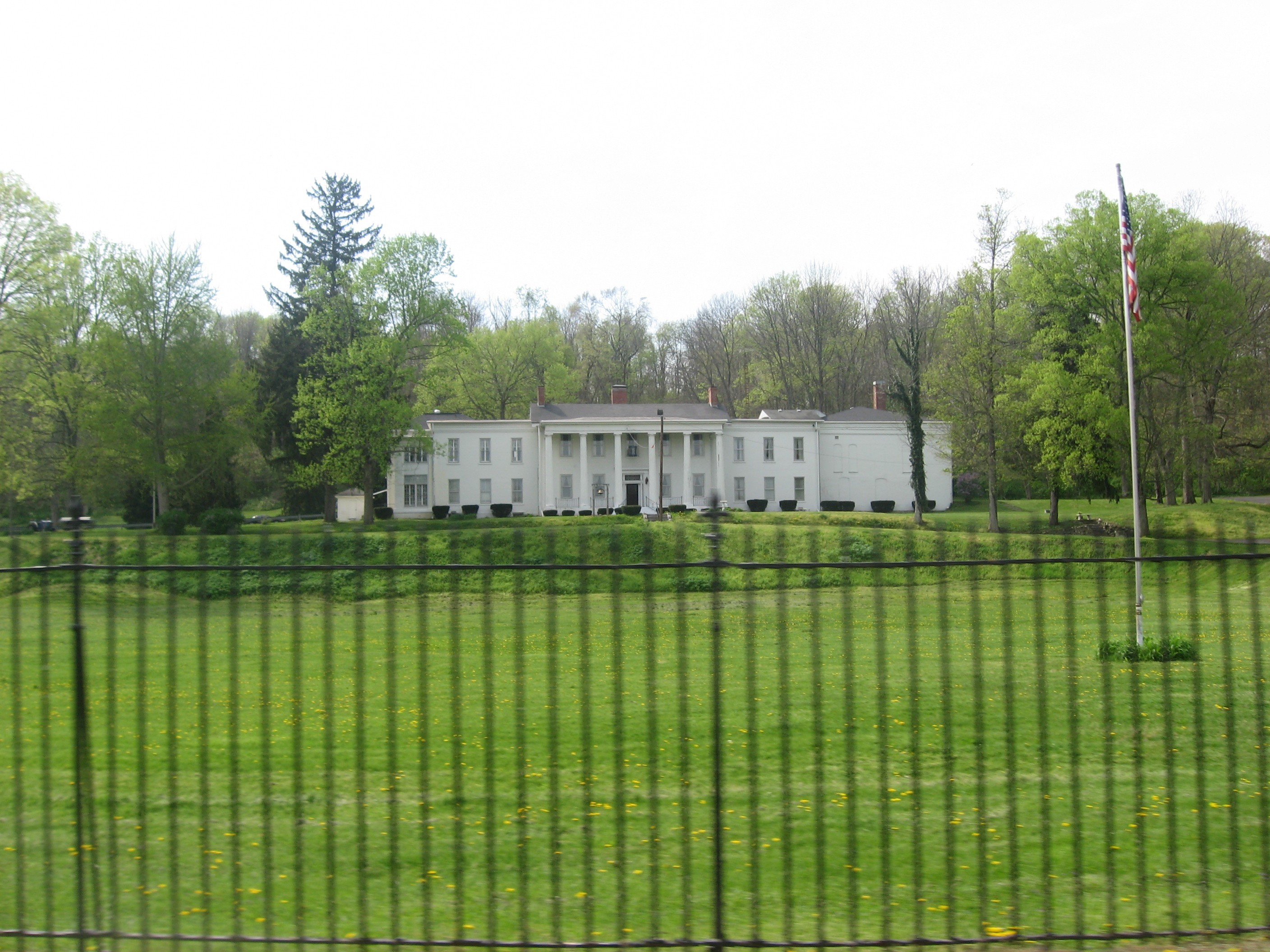 Overview of Elmhurst, located on the western side of State Road 121 on the southern edge of Connersville, Indiana, United States. Among its residents have been James N. Huston, Samuel W. Parker, Caleb Blood Smith, and Oliver H. Smith. Built in 1831, it is listed on the National Register of Historic Places.